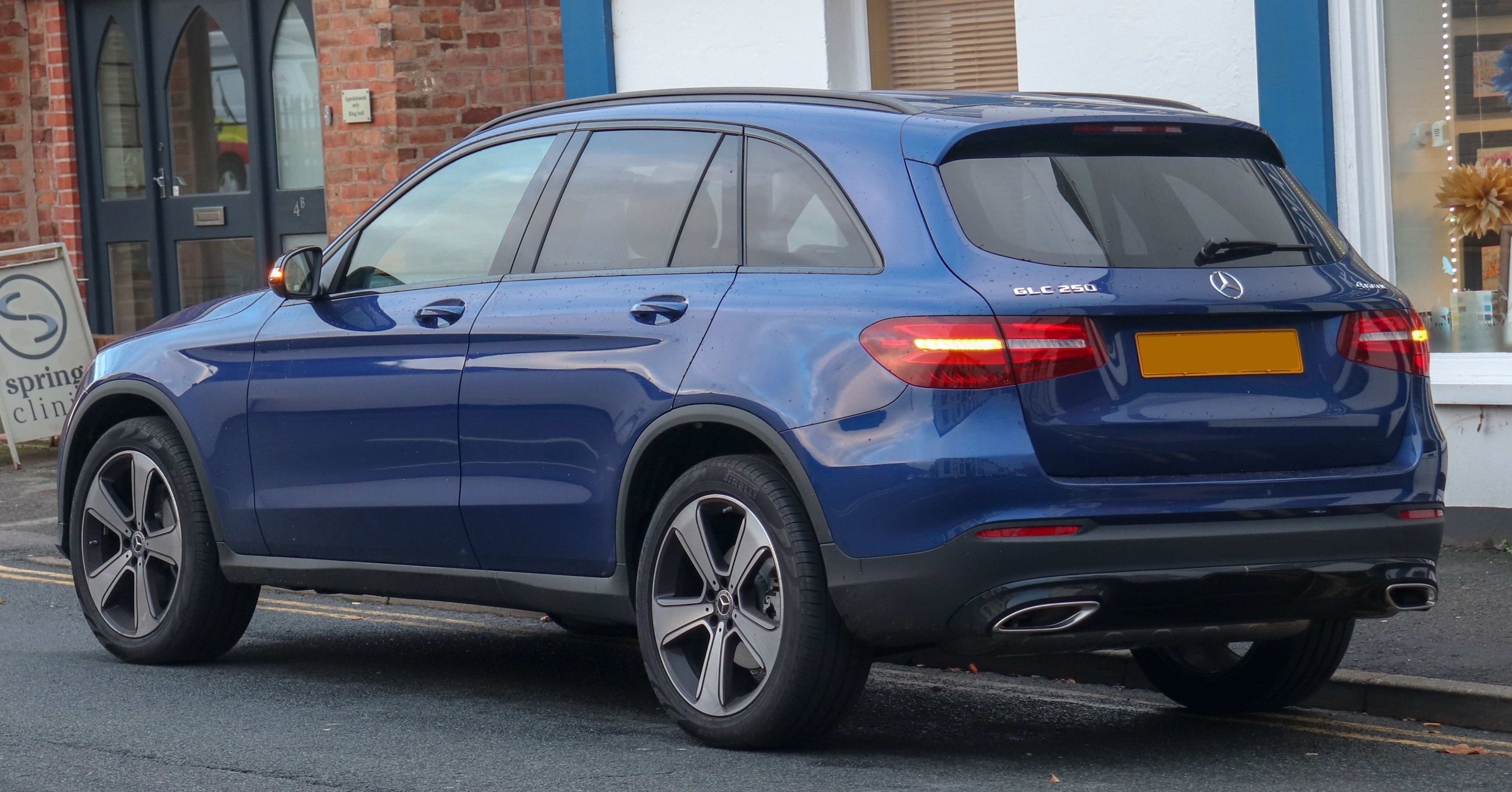 2018 Mercedes-Benz GLC 250 Urban Edition 4MATIC 2.0 Rear Taken in Leamington Spa